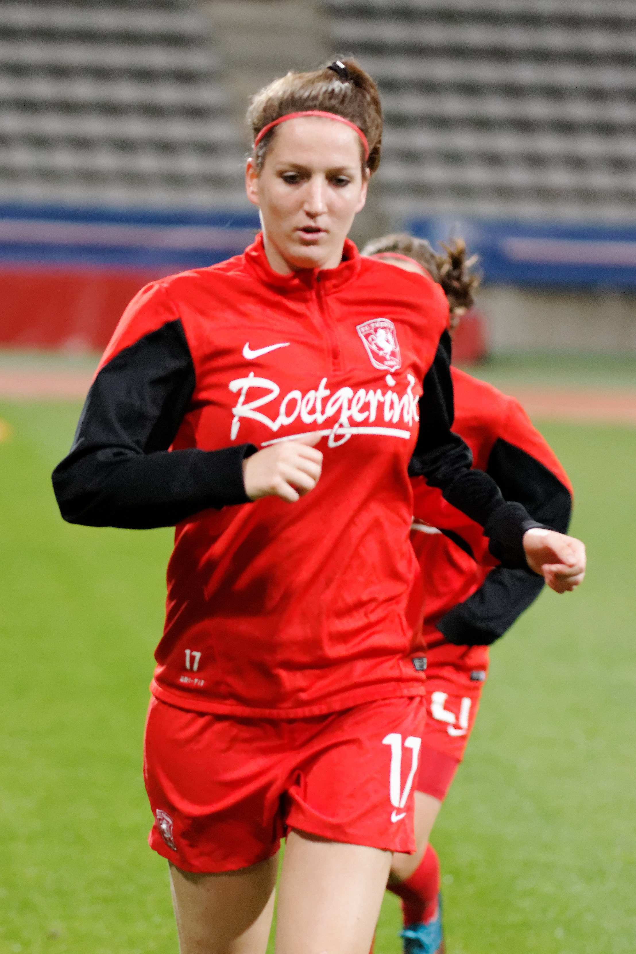 UEFA Women's Champions League, PSG - Twente, 15 October 2014